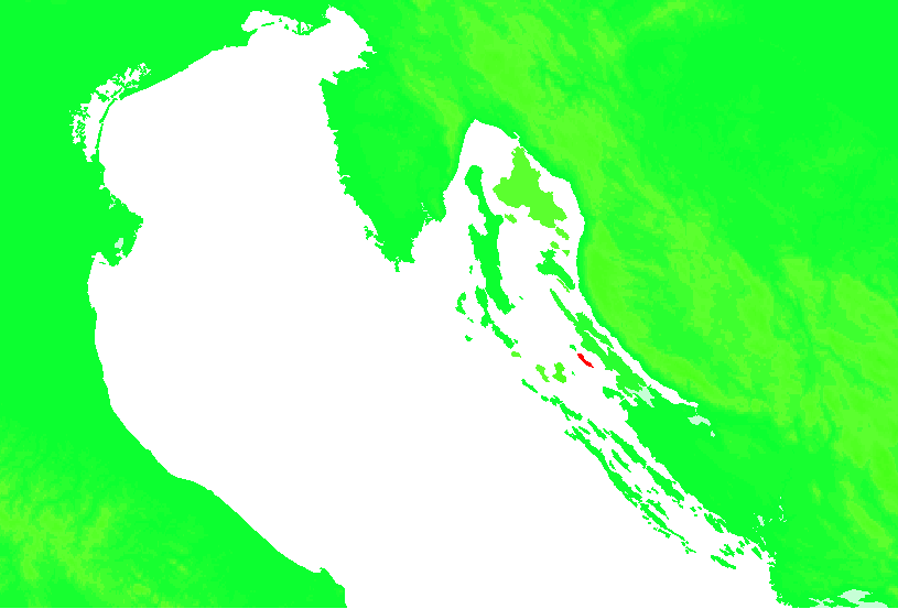 Island of Croatia Croatia - Maun.PNG